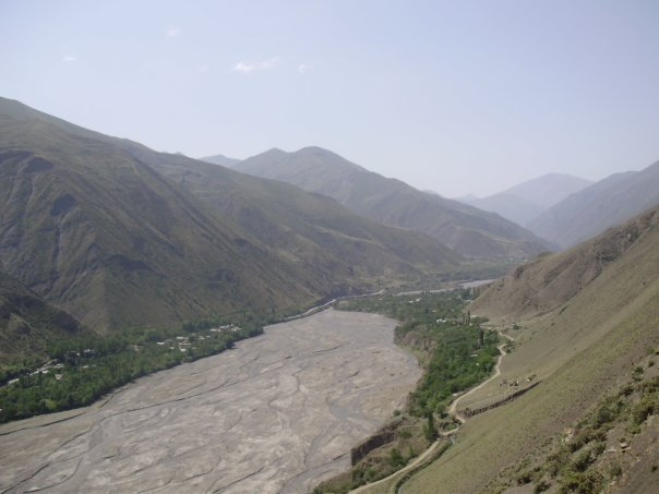 View southern part of a lezghian town of Akhty in Dagestan.